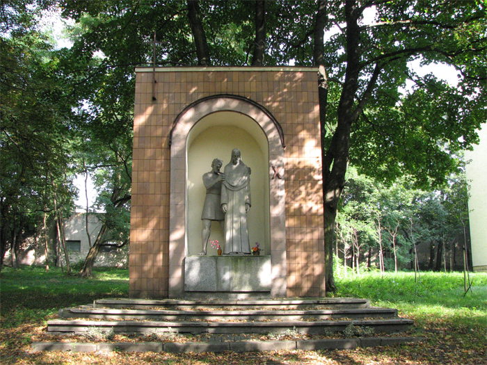 Calvary in Katowice Panewniki, Stations of the Cross - "Jesus is stripped of His garments". Completed in 1951. Sculptress Angelina Jura-Petrucco.